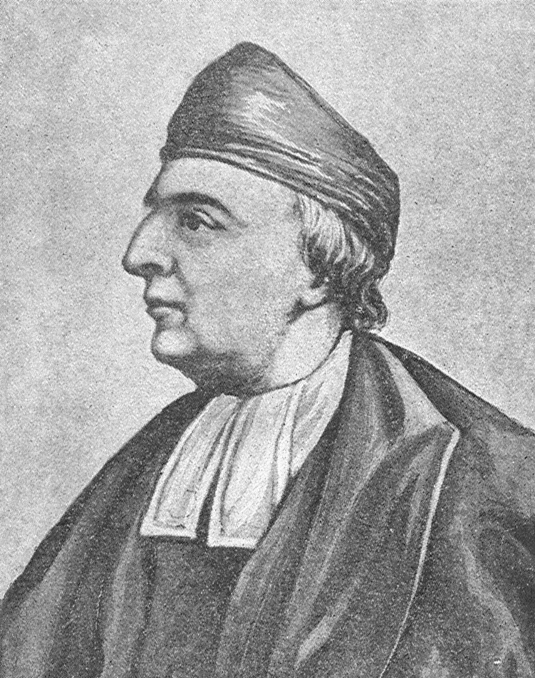 Samuel Wesley, father of John Wesley the founder of Methodism.